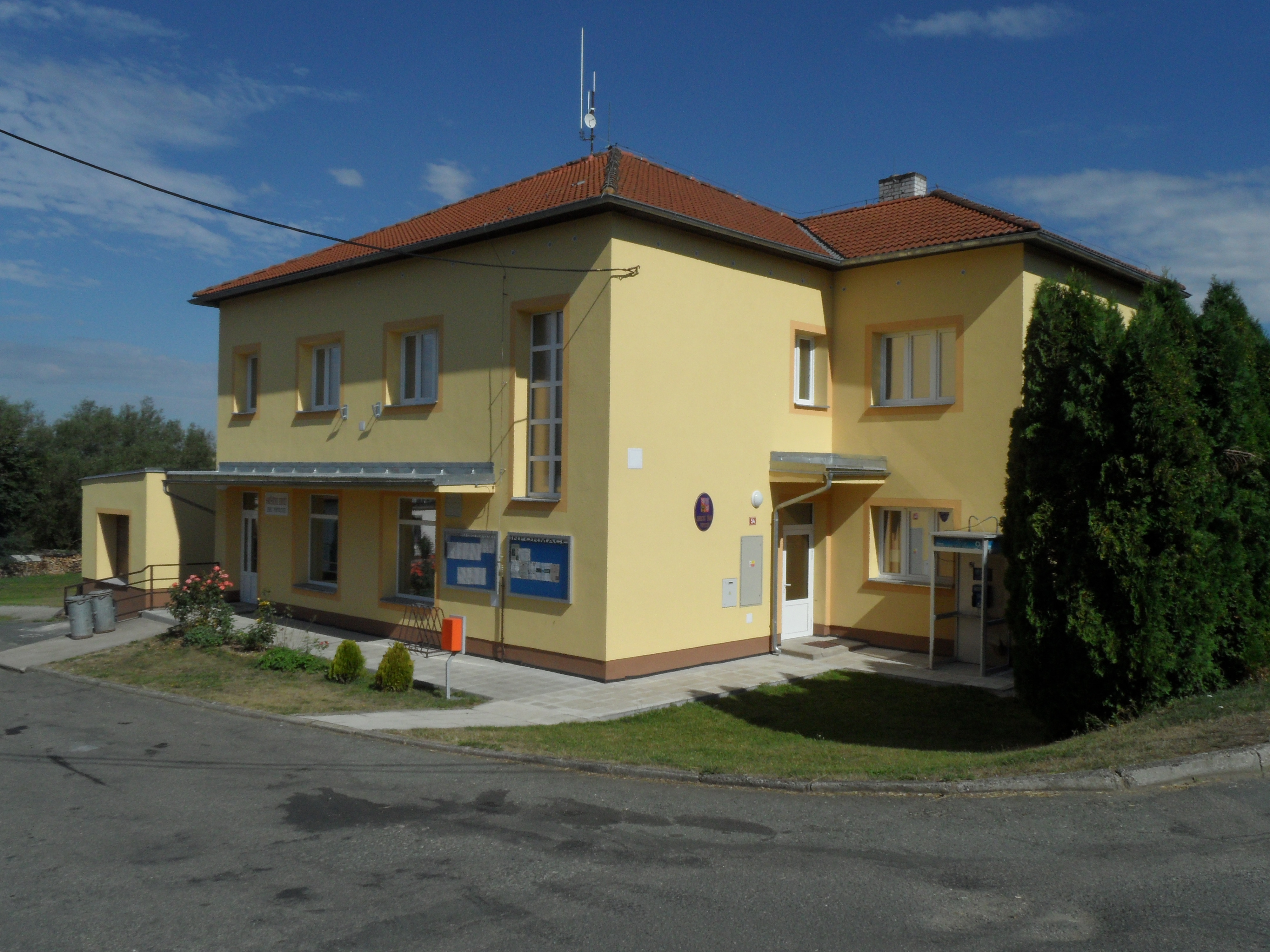 Pertoltice G. Building of Municipality Office, Kutná Hora District, the Czech Republic.